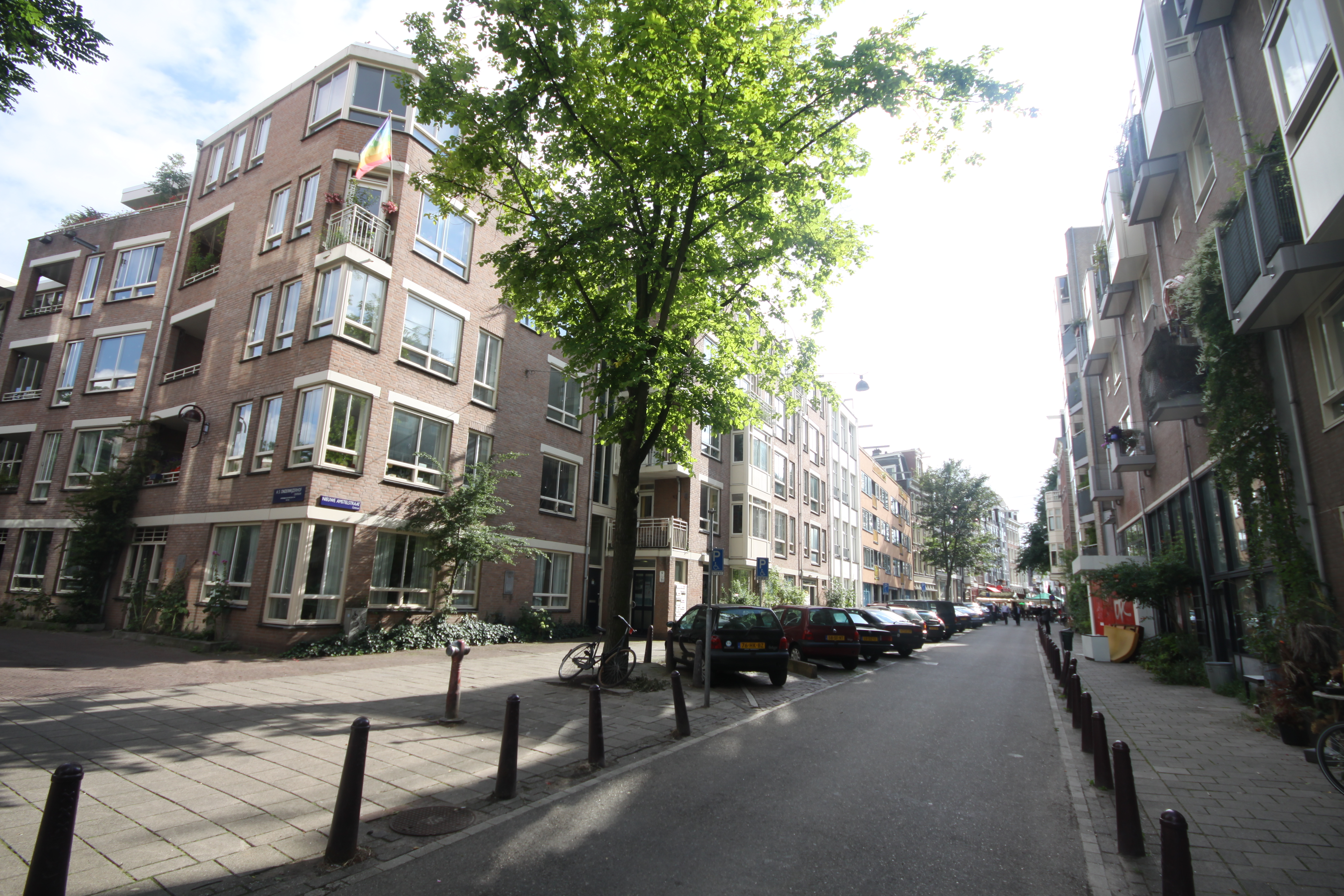 Nieuwe Amstelstraat in Amsterdam